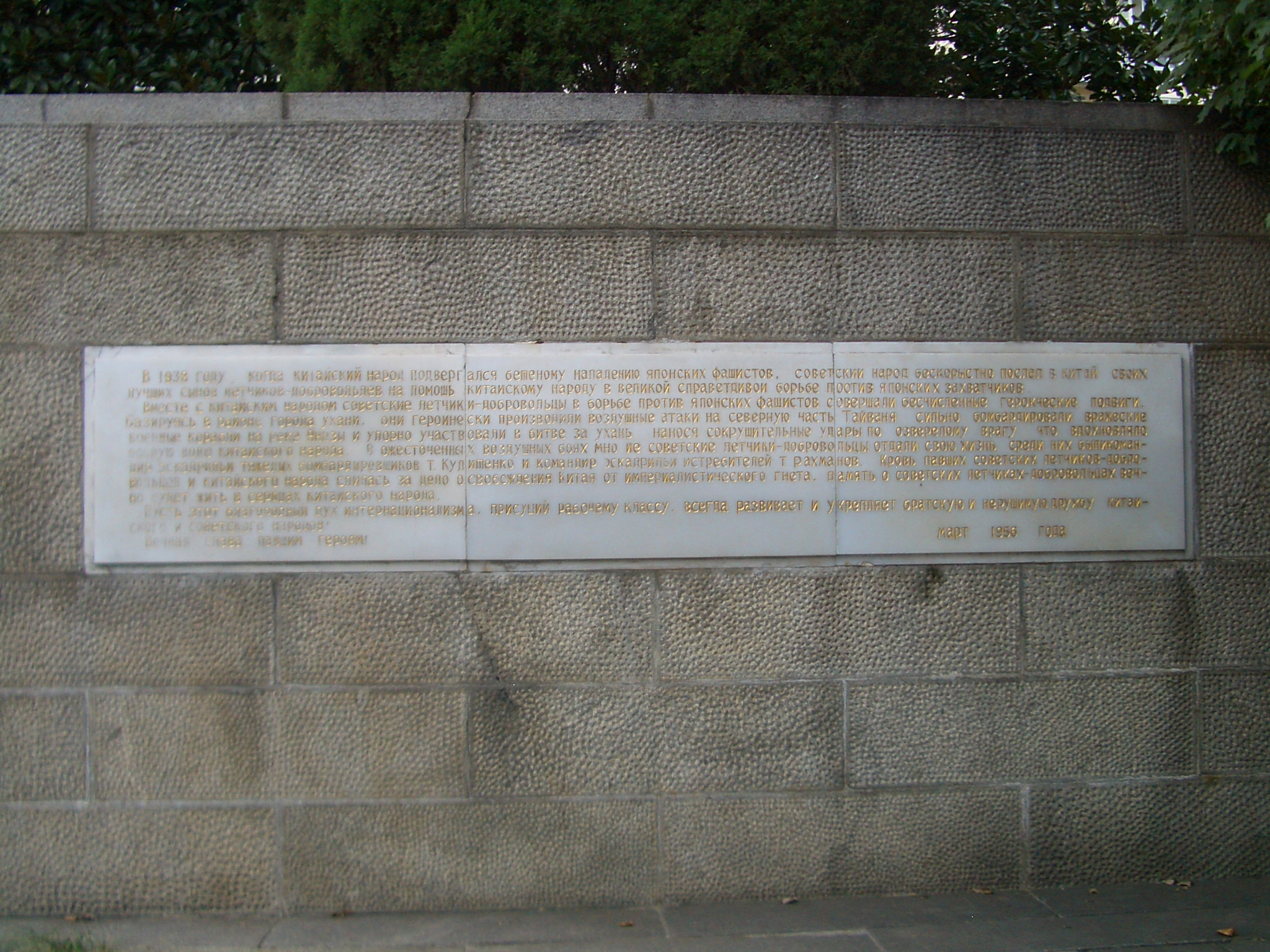 Monument at the graves of the Soviet aviators who died while fighting the Japanese invaders in 1938. (Jiefang Park, Hankou, Wuhan)